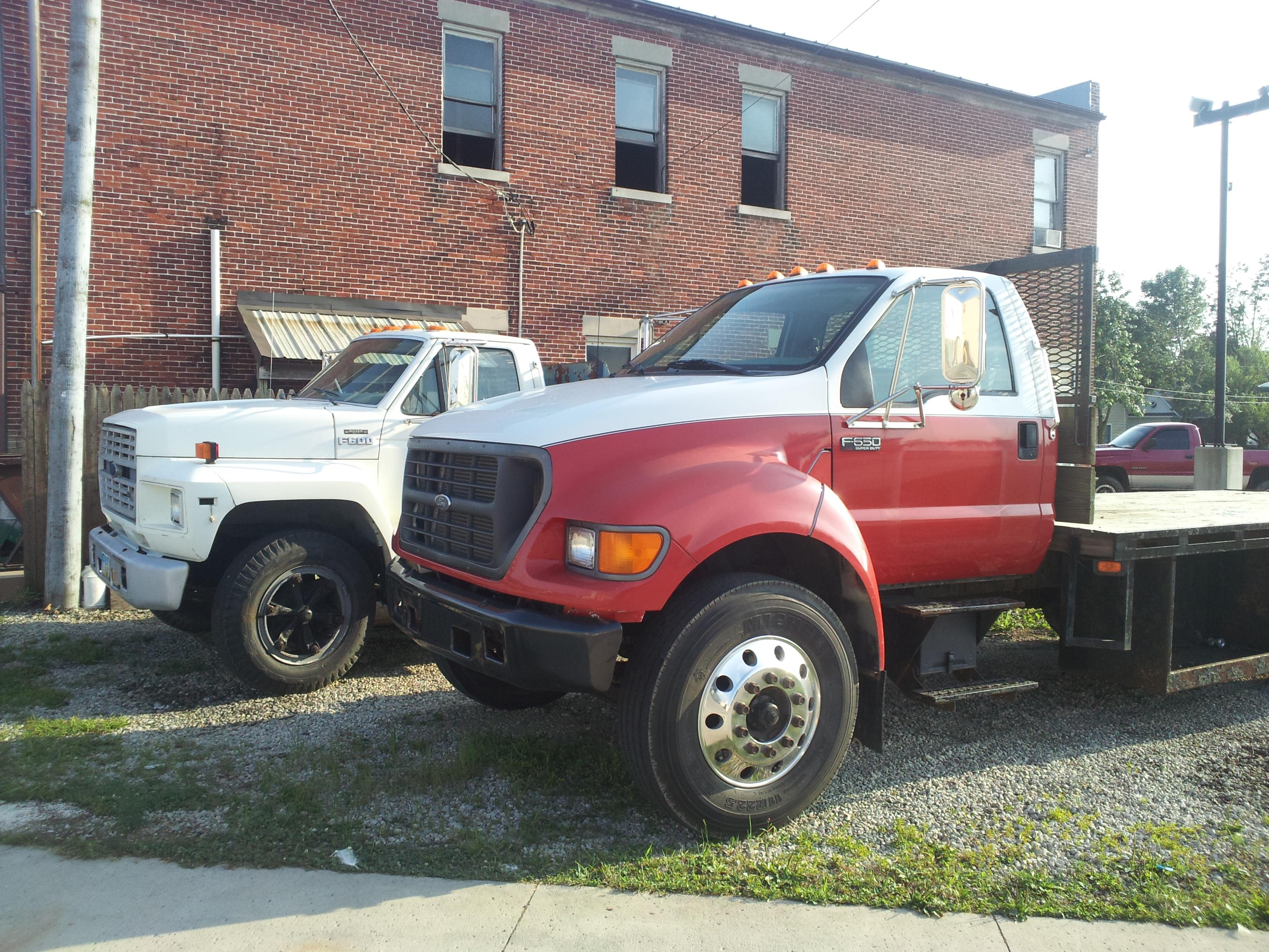 2002 Ford F-650 in front. 1989 Ford F-600 in back. Both Class 6 trucks. F-650 GVWR:26,000. F-600 GVWR:20,200